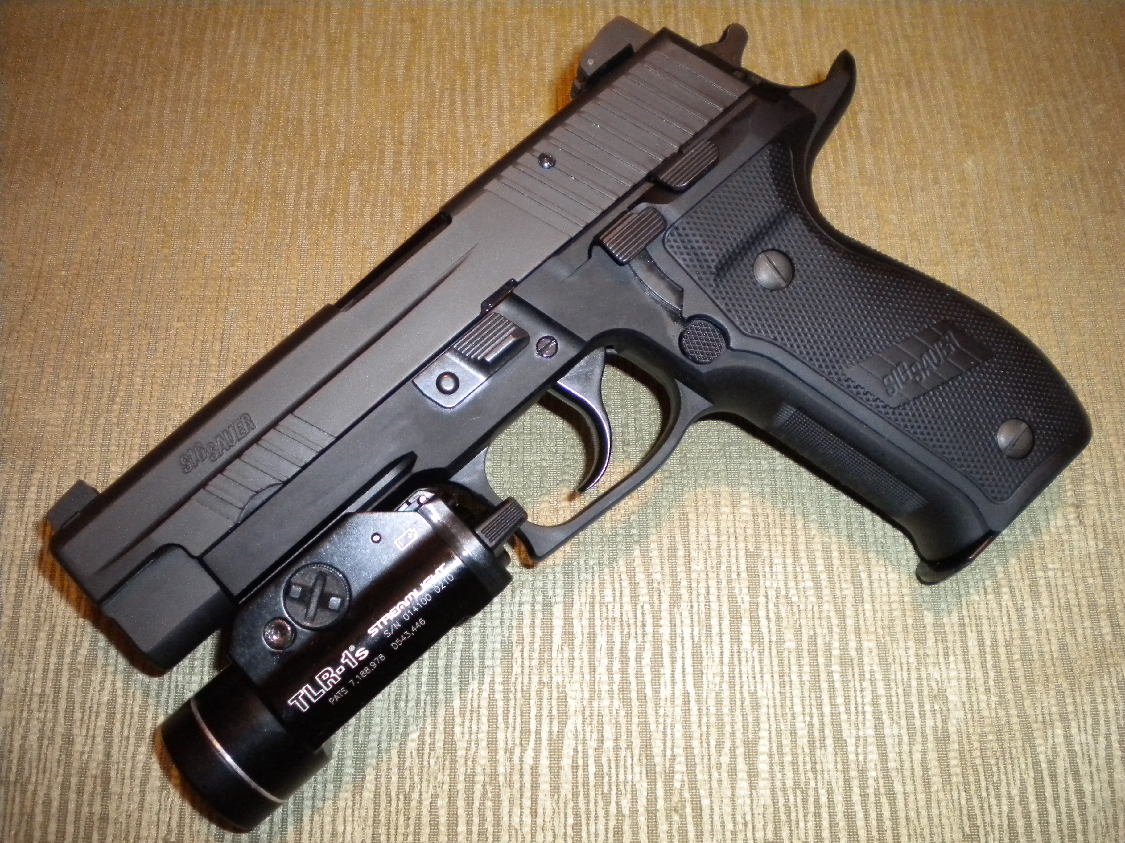 A SIG Sauer P226 Elite Dark with attached Streamlight TLR-1s weapon light. Note the extended beavertail.